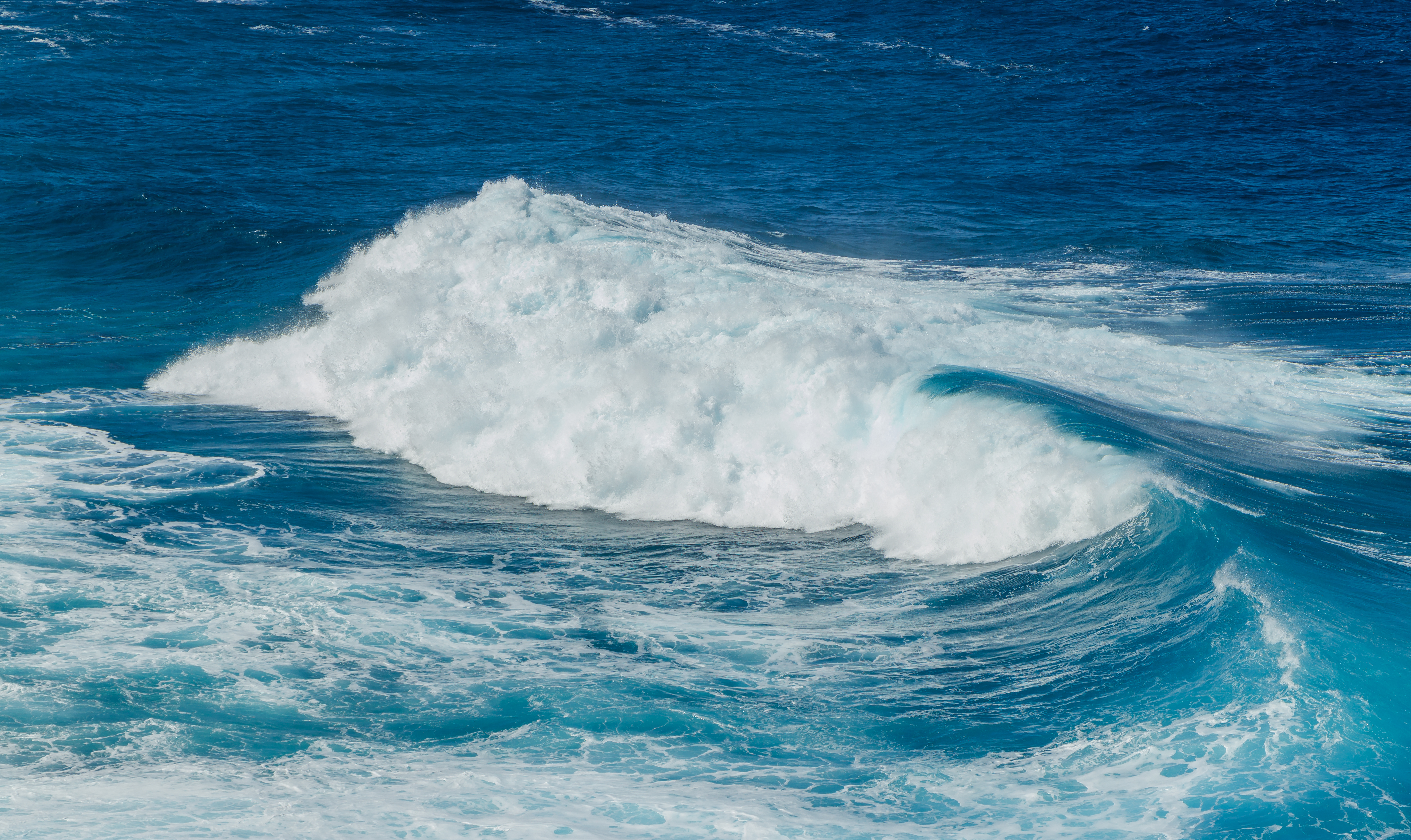 Breakers at the coast of Porto Moniz, Madeira, Portugal.